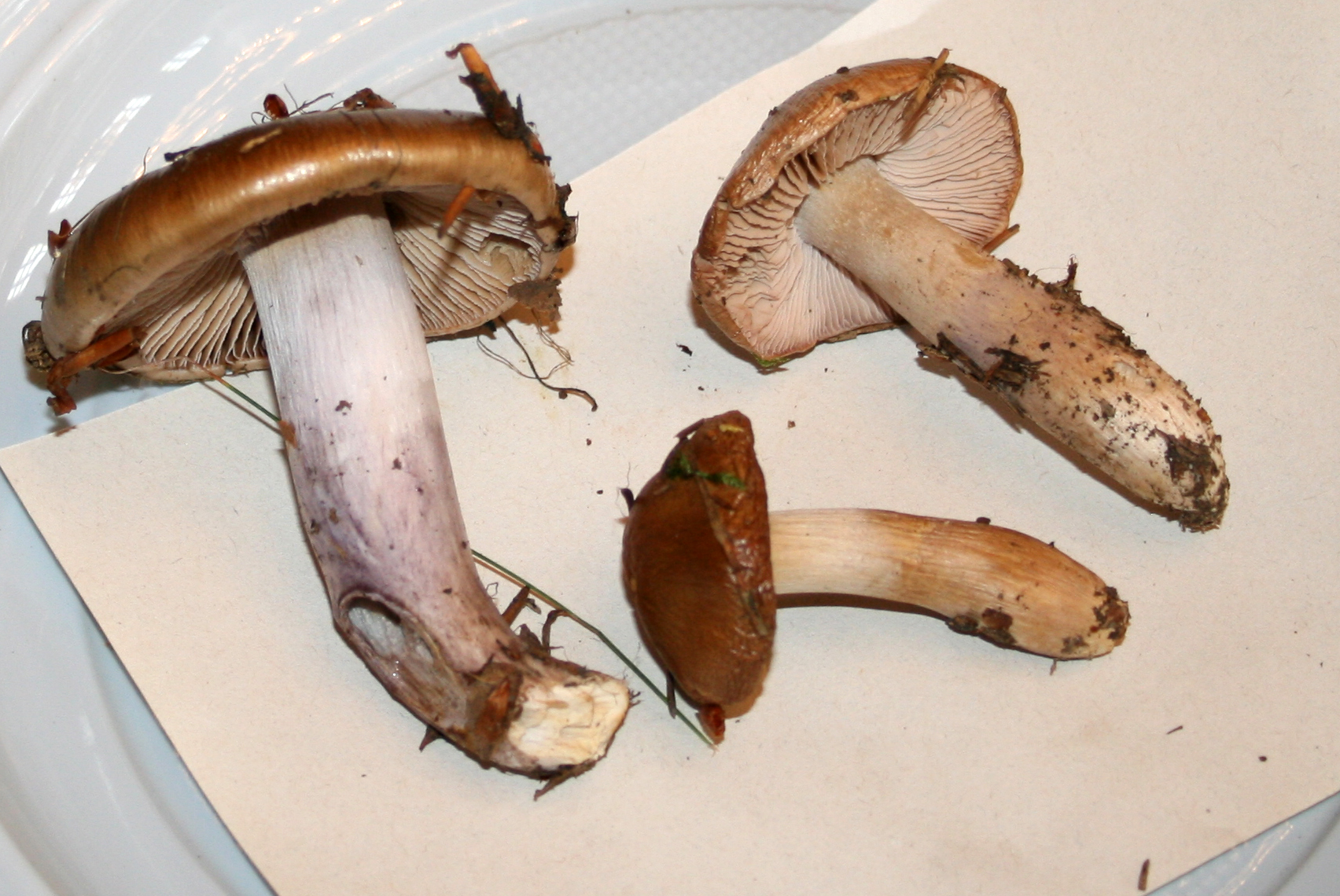 Cortinarius stillatitus on Prague international mushroom exhibition 2008, Czech Republic